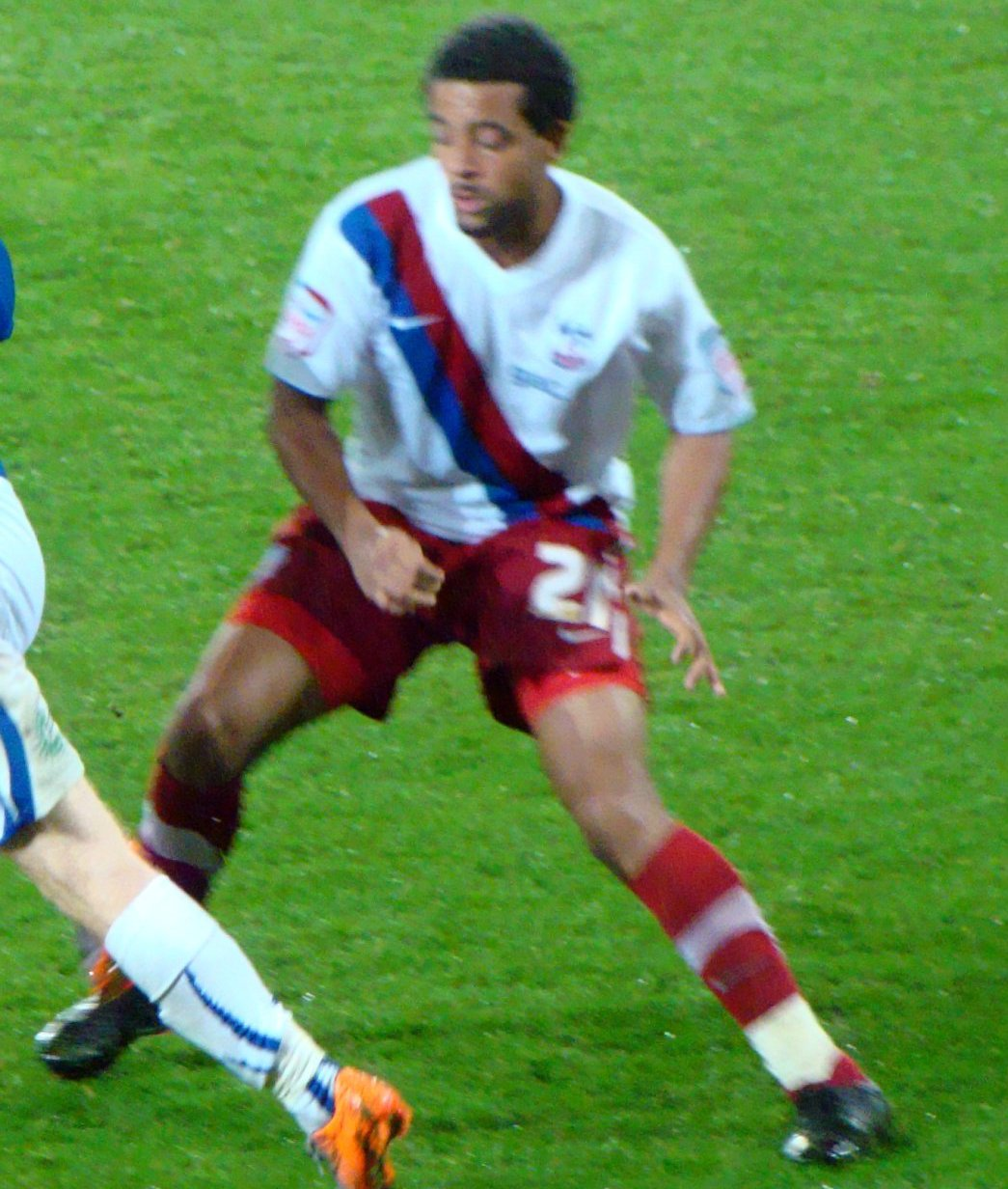 28/09/10 Cardiff City V Crystal Palace, Champiomship, Cardiff City Stadium, Cardiff, Wales